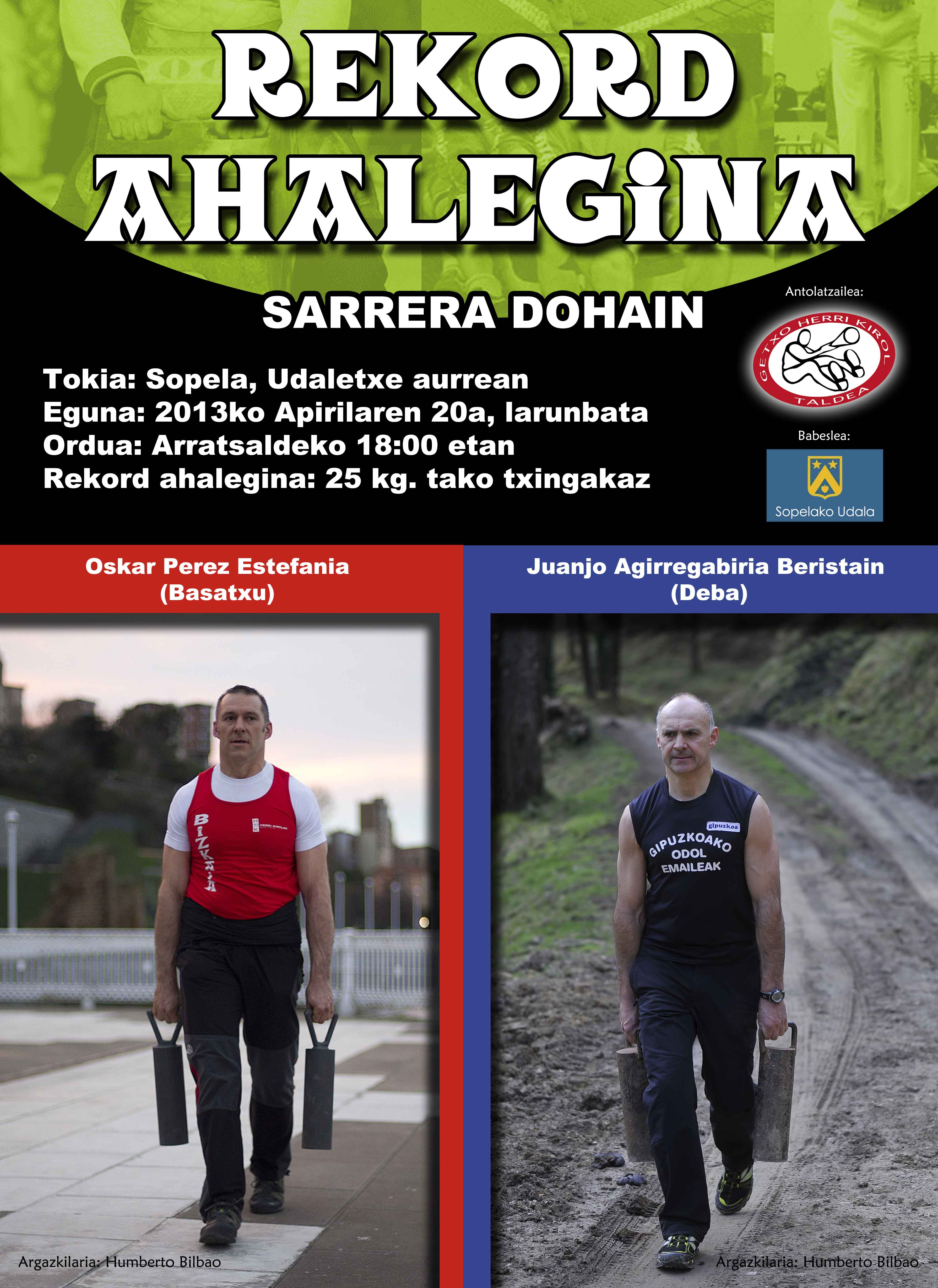 Txinga record in Sopela.